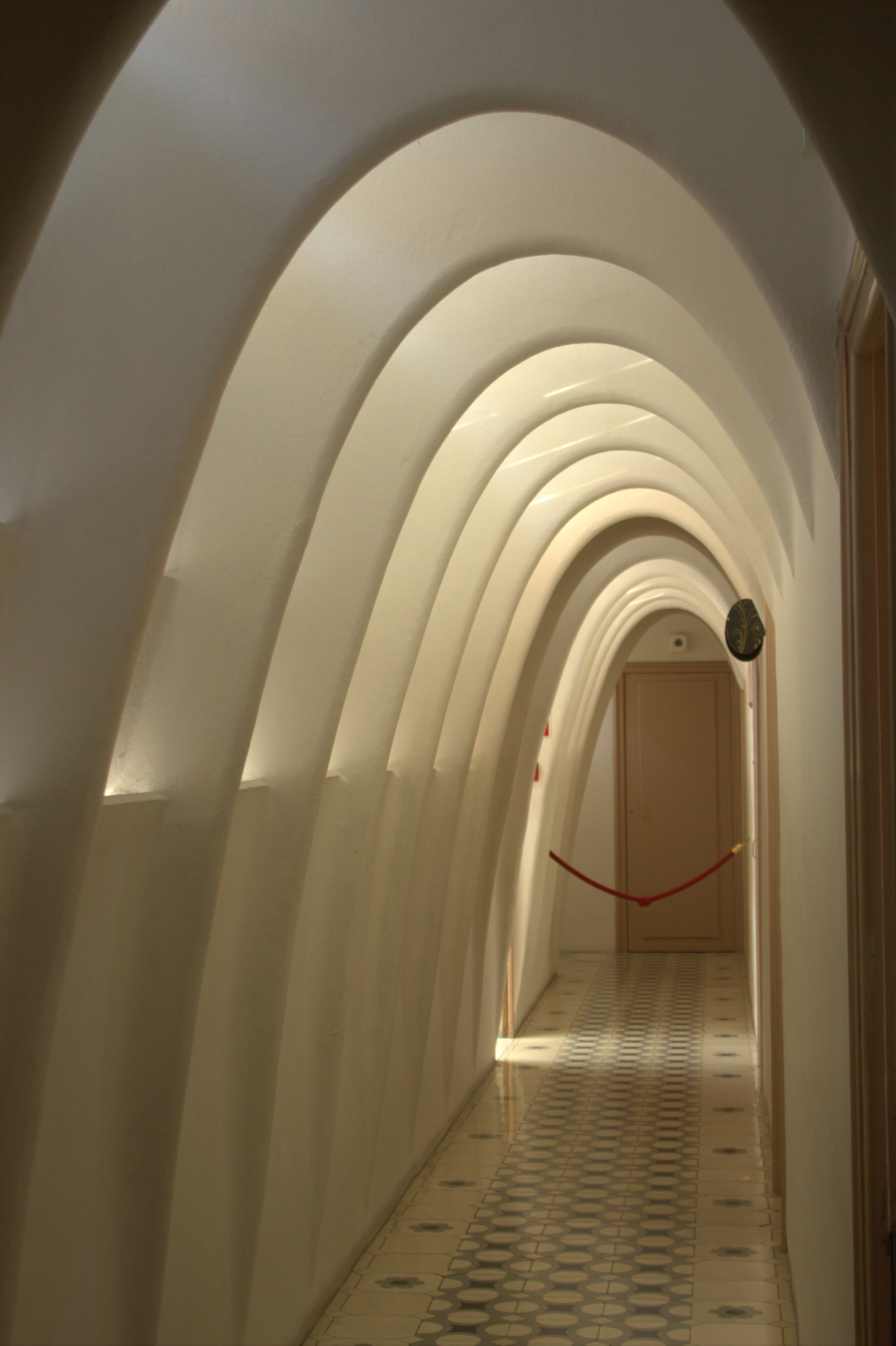 Casa Batlló Parabolic Arches